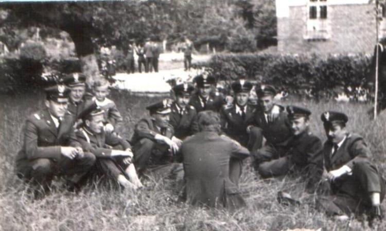 Kadra techniczna 64.LPS 1960